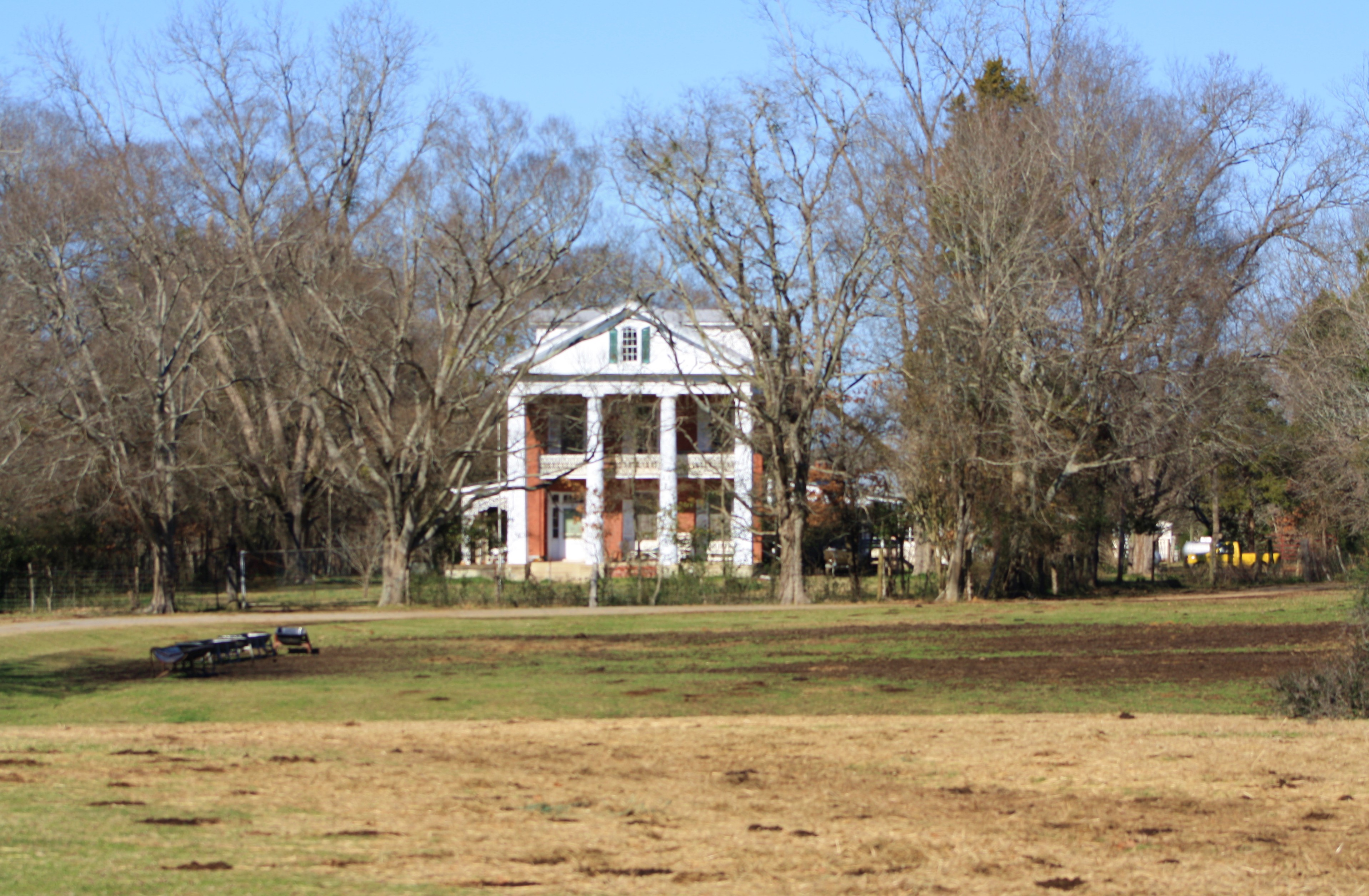 The Hatch Plantation at Arcola, Hale County, Alabama. On the National Register of Historic Places.